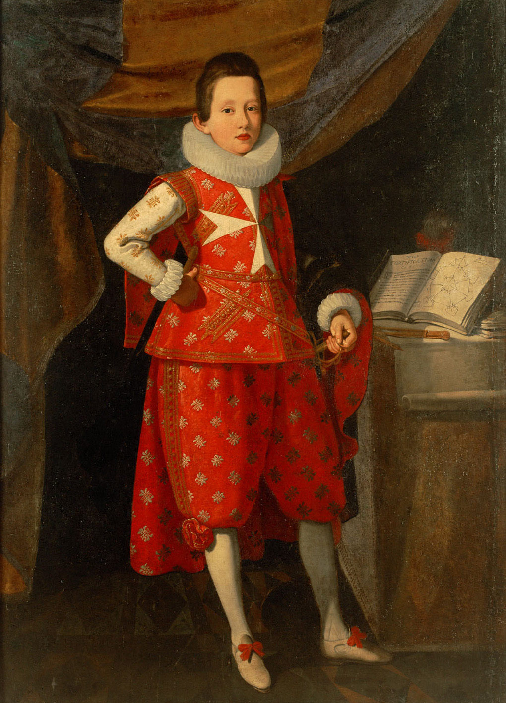 Portrait of Giancarlo de' Medici (1611-1663)